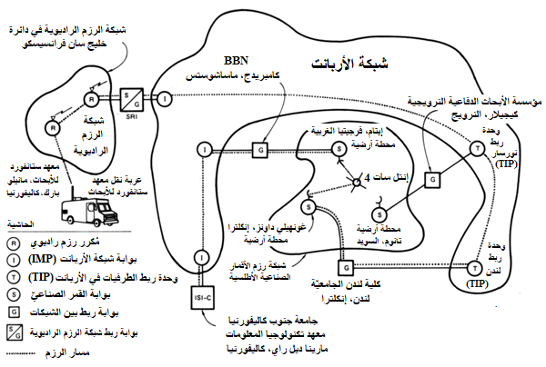 SRI’s role in the first internetworked connection